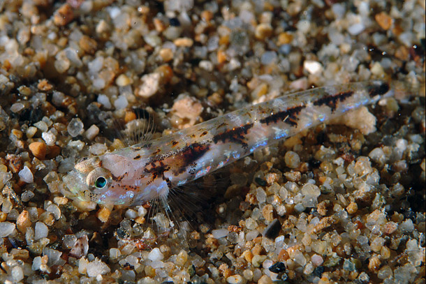 Pomatoschistus bathi photographed near Tuscany coasts (Italy). Photo by Stefano Guerrieri.